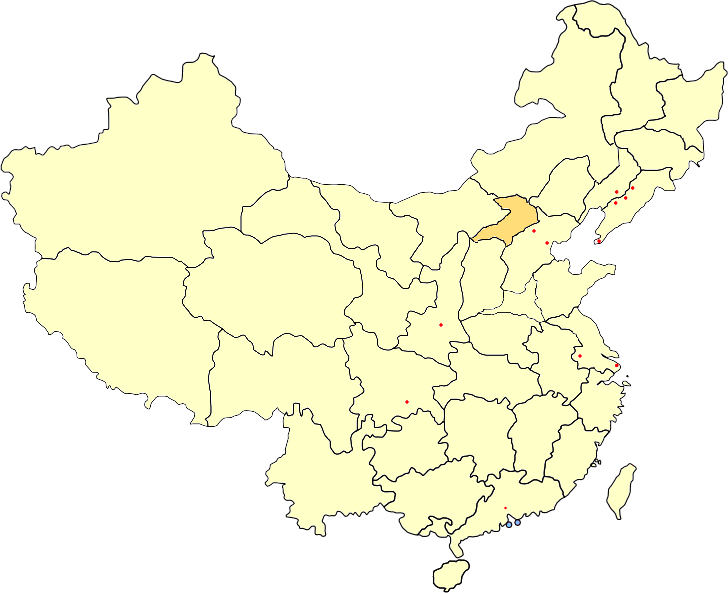 Chahar province PRC (1948-1952)